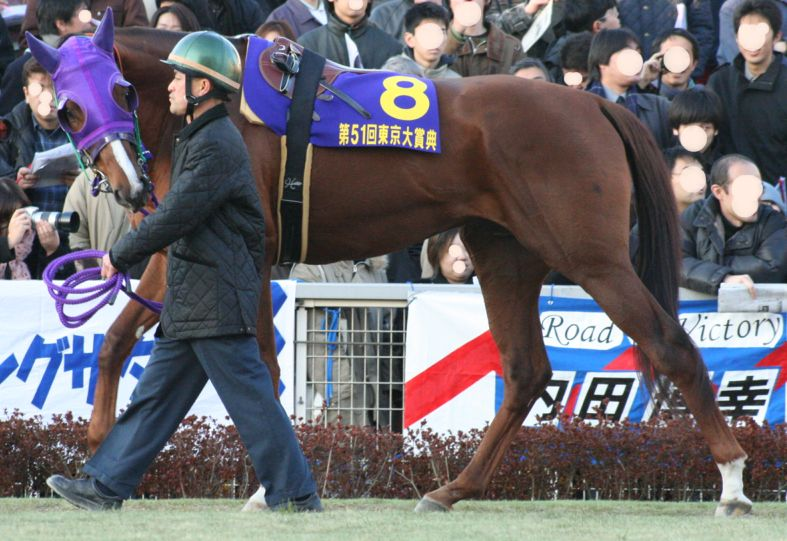 Utopia (Tokyo Daishoten)